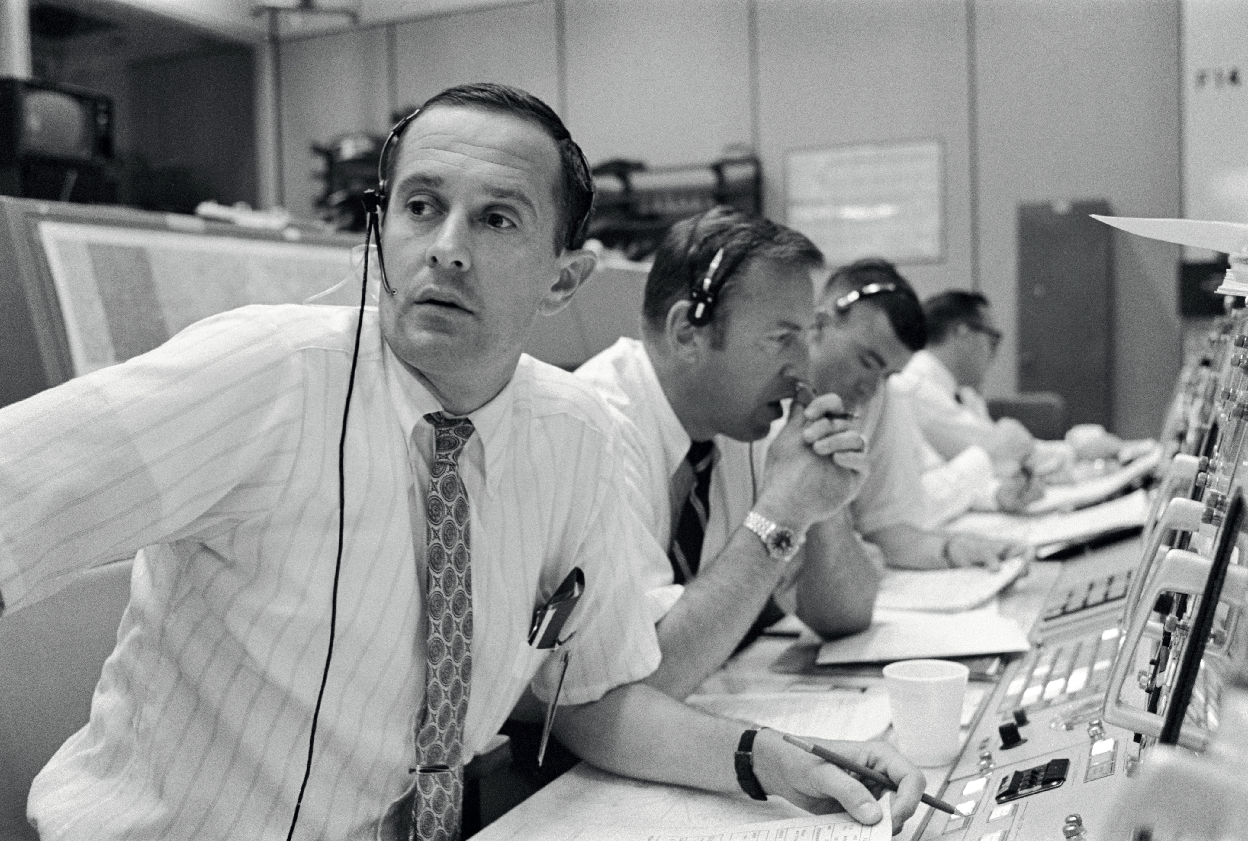 Spacecraft communicators at the Lyndon B. Johnson Space Center in Houston, Texas, USA, keeping in contact with the Apollo 11 astronauts during their lunar landing mission on 20 July 1969. From left to right, they are astronauts Charles M. Duke Jr., James A. Lovell Jr. and Fred W. Haise Jr.